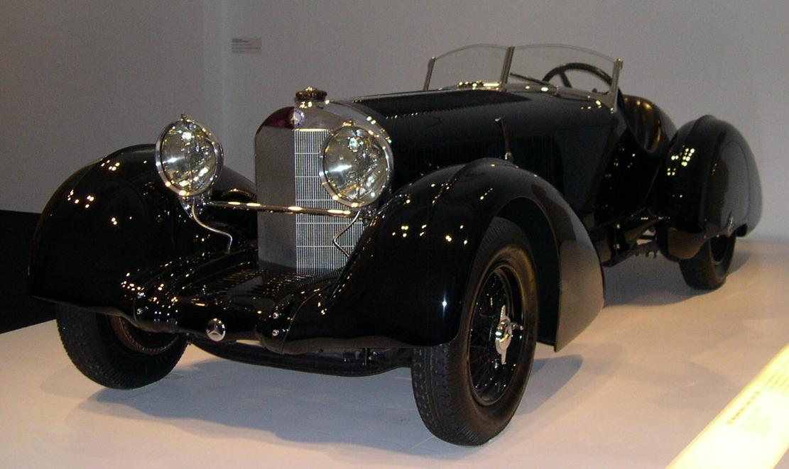 1930 Mercedes-Benz SSK "Count Trossi" From the Ralph Lauren collection on display at the Boston Museum of Fine Arts. Photo taken in 2005.